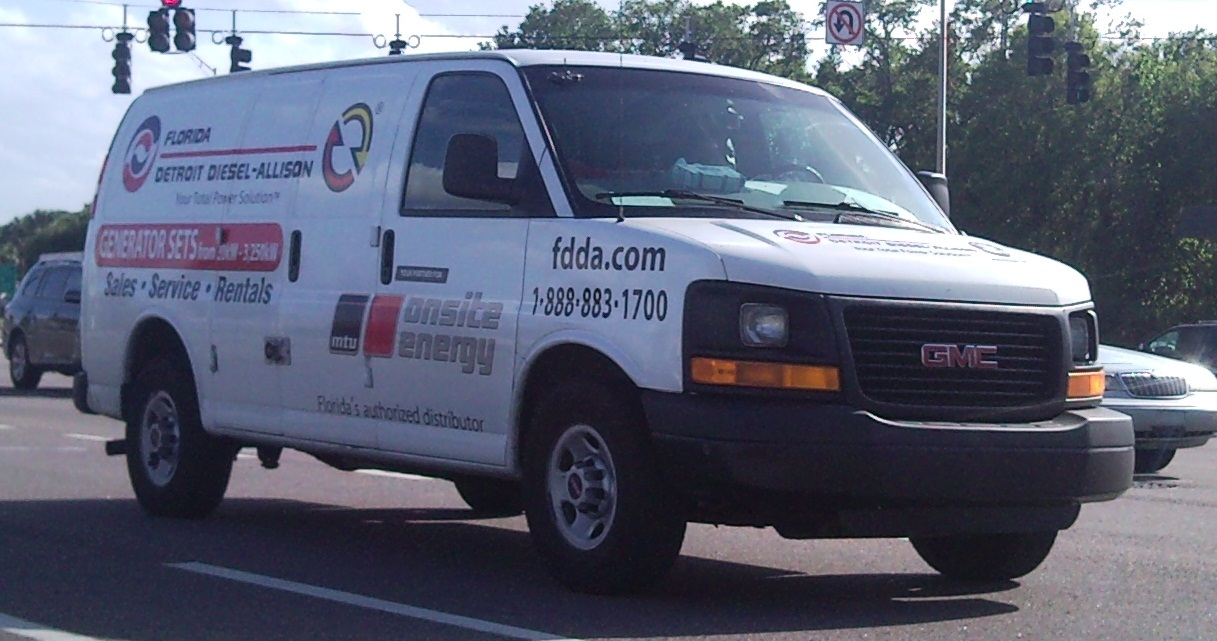 GMC Savana Detroit Diesel photographed in Orlando, Florida, USA.